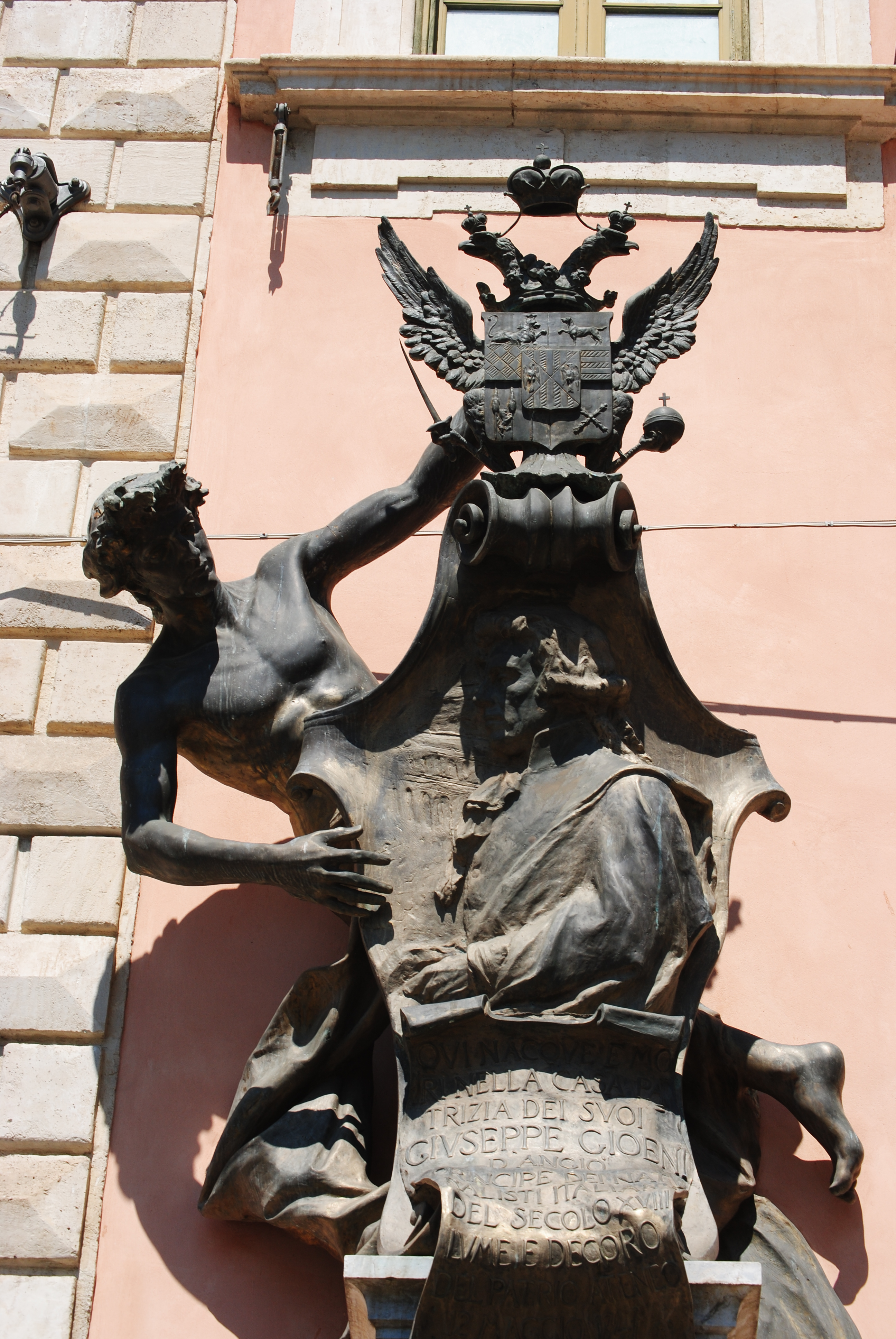 Army of Gioeni.